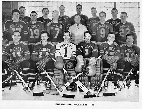 1947-48 Philadelphia Rockets (AHL)